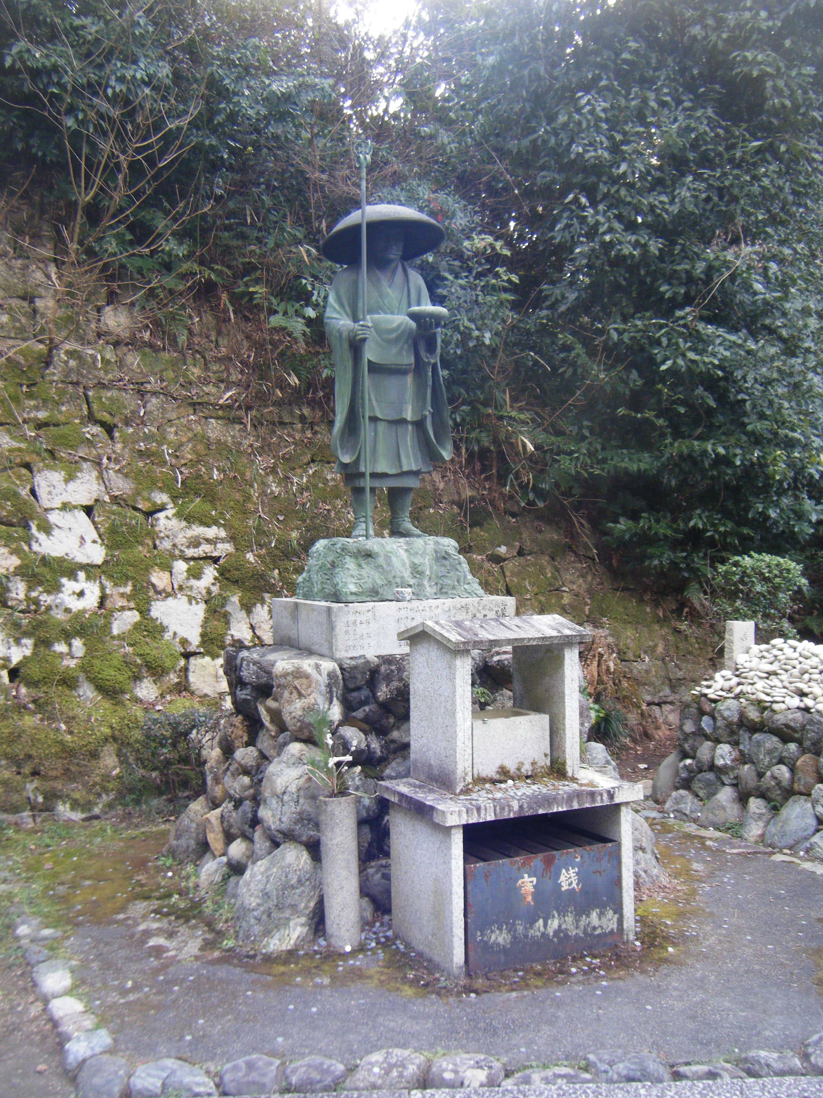 Sennyu-ji in Higashiyama-ku, Kyoto, Kyoto prefecture, Japan. Photos ware taken in Shichifukujin-Festival (Seven Lucky Gods Festival).